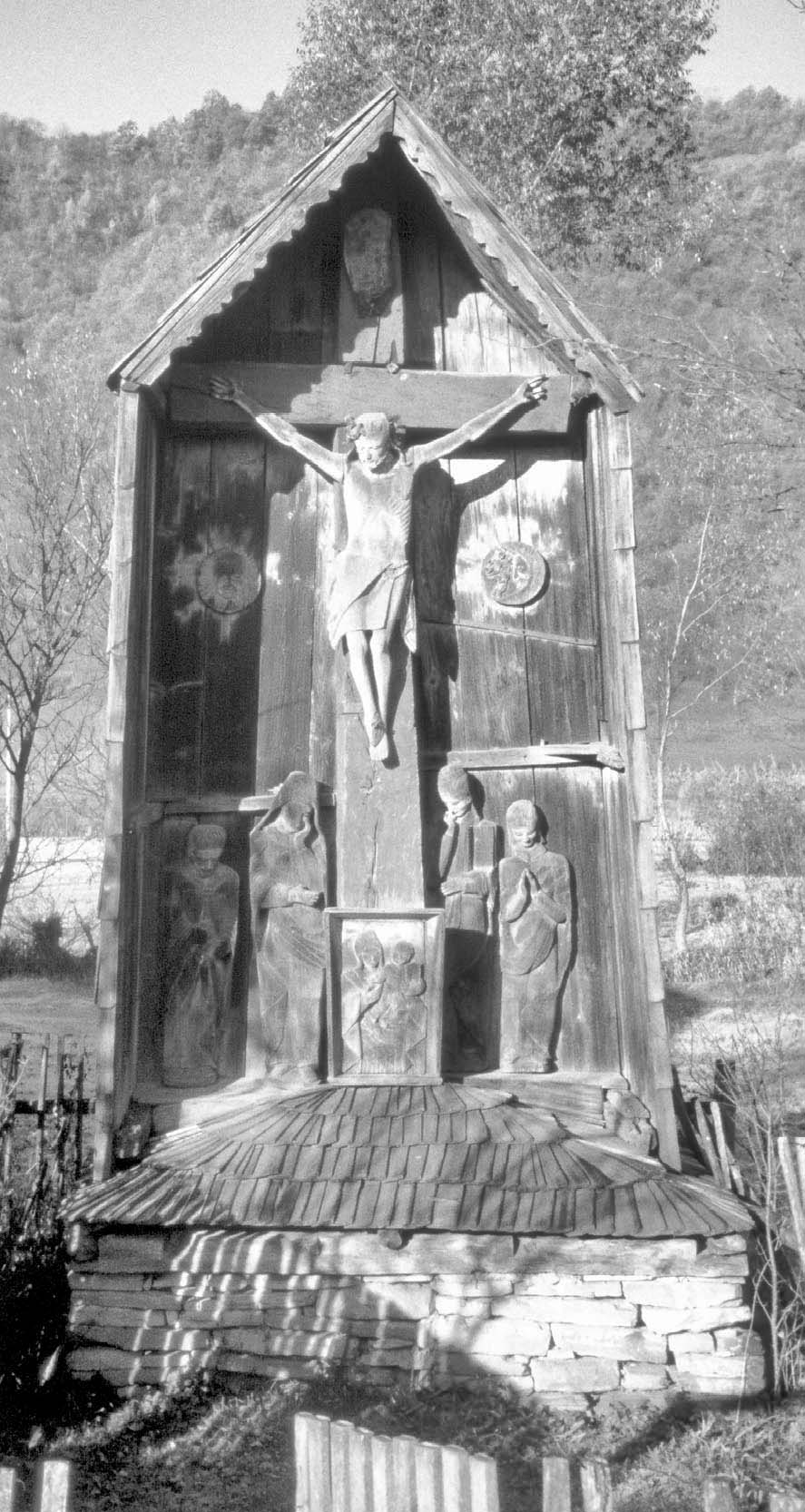 carved wooden crucifix from the 18th century in Berbești village, Maramureș, Romania